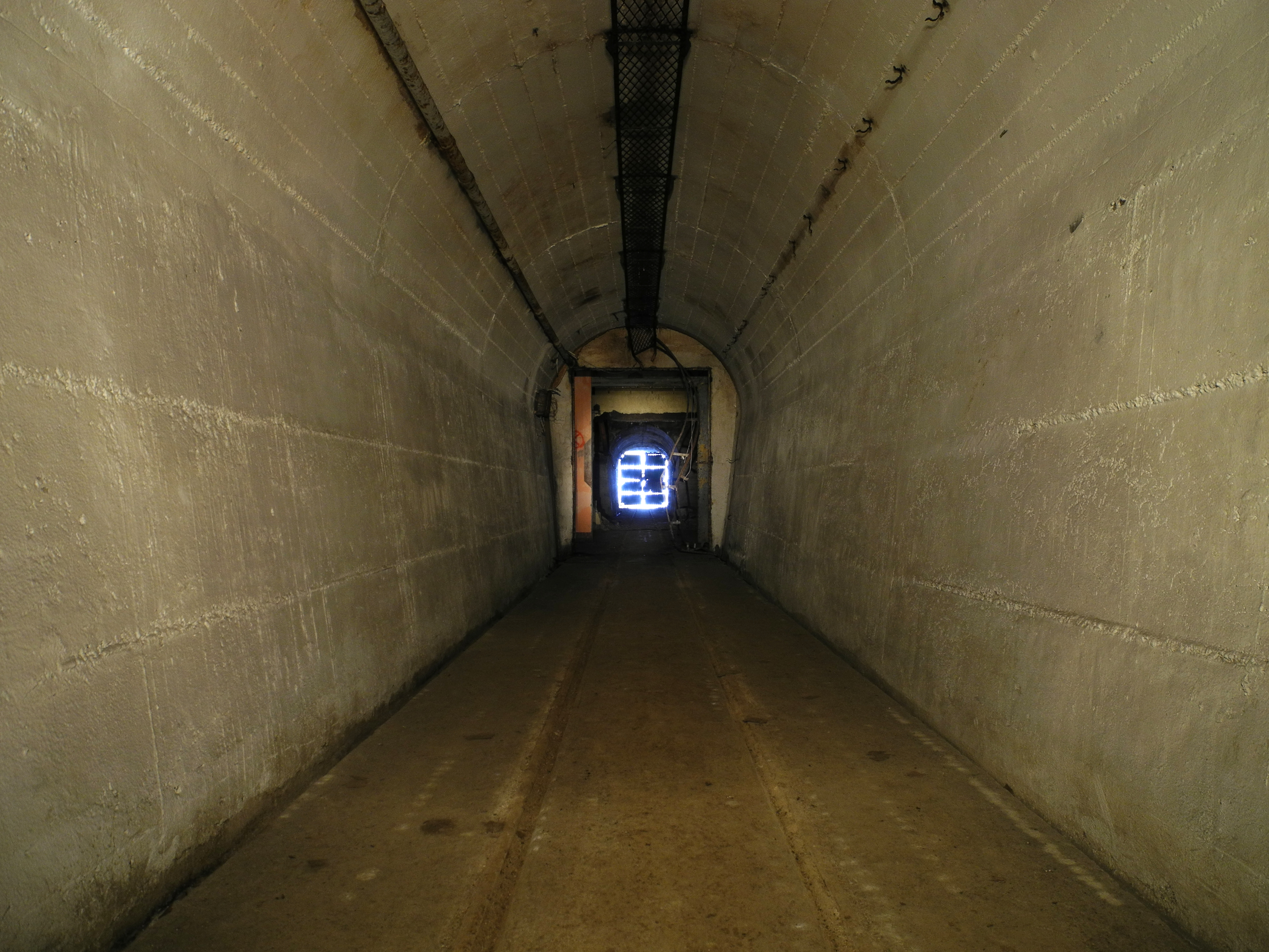 This JPG graphic was created with GIMP. Vue sur l'entrée du matériel. Salbert hill fortifications. Old NATO station (lightpainting).